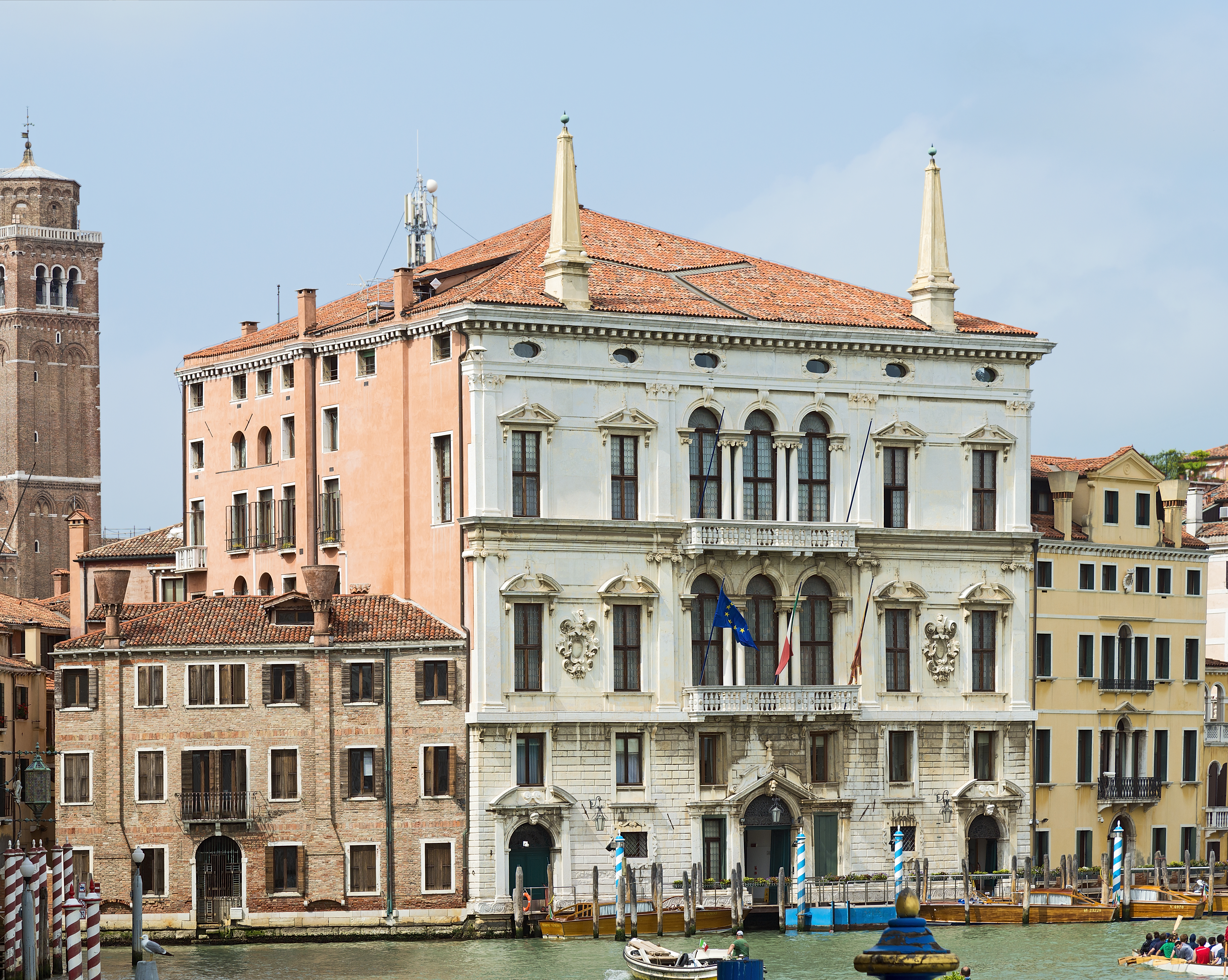 Palazzo Balbi Venice. Facade on Grand Canal.